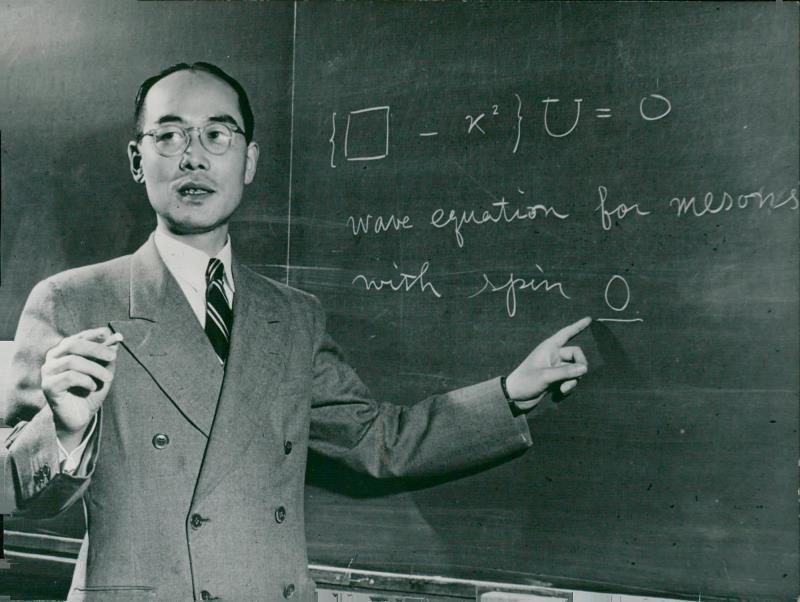 Hideki Yukawa at the blackboard in Columbia University - Vintage photo